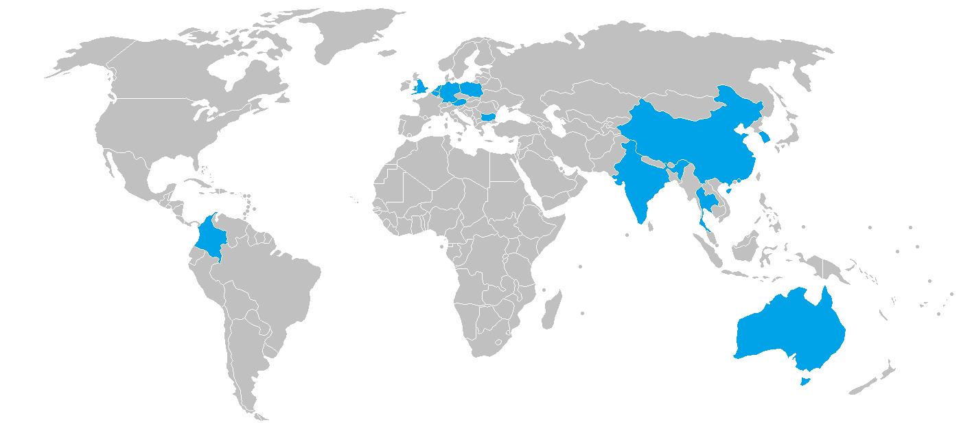 Nations hosting a World Snooker Tour event in 2013/14